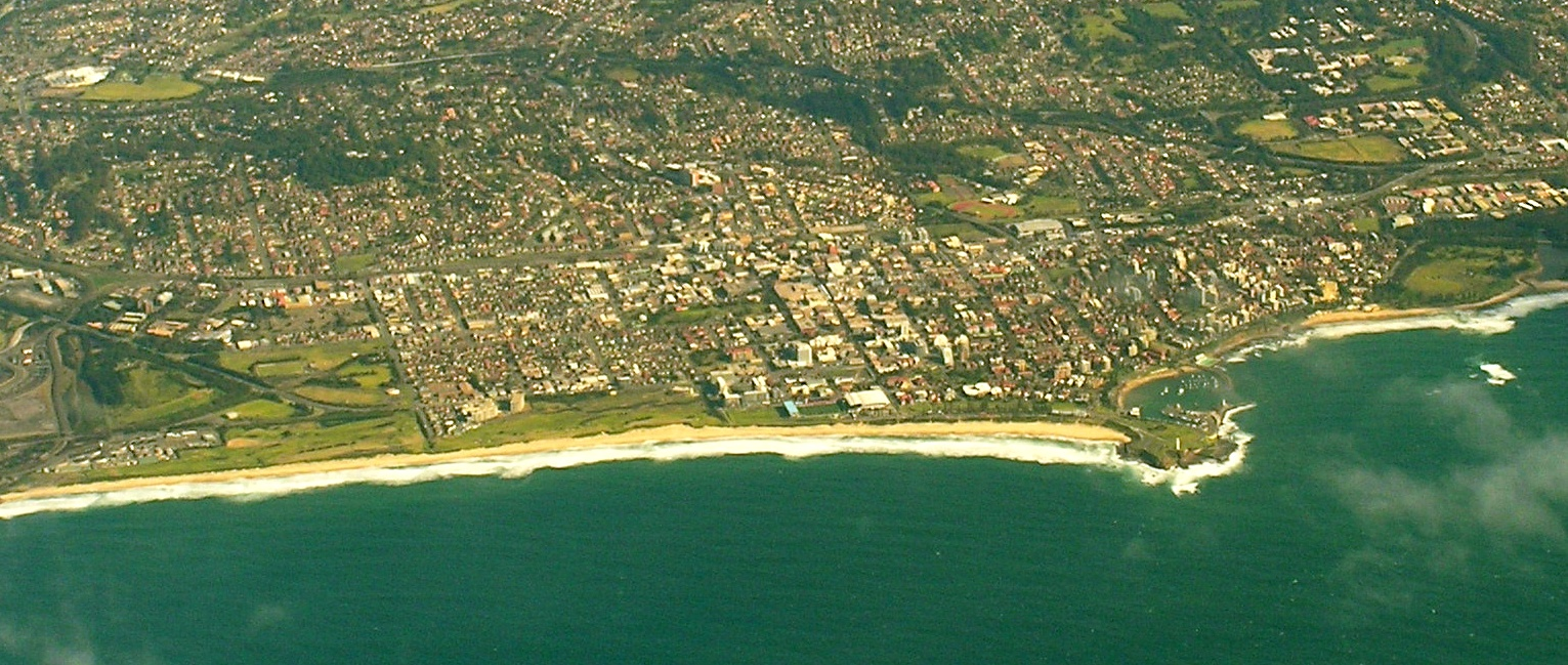 Aerial photo of Wollongong New South Wales from east side